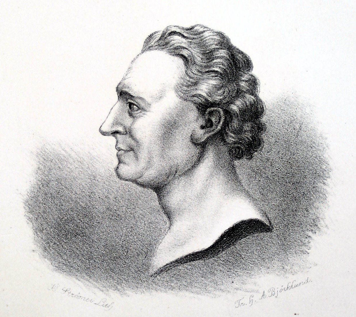 Portrait of Erik Nordewall from the book "Svenska industriens män" (1875)